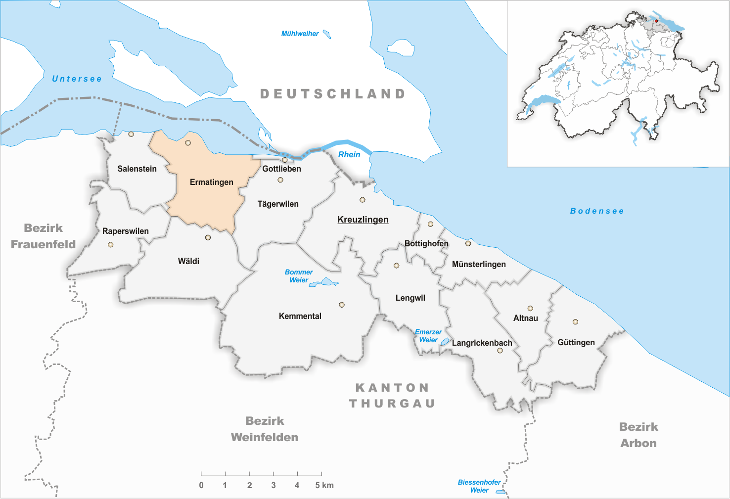 Municipality Ermatingen